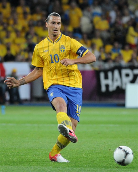 Zlatan Ibrahimović at the Euro 2012 match against England